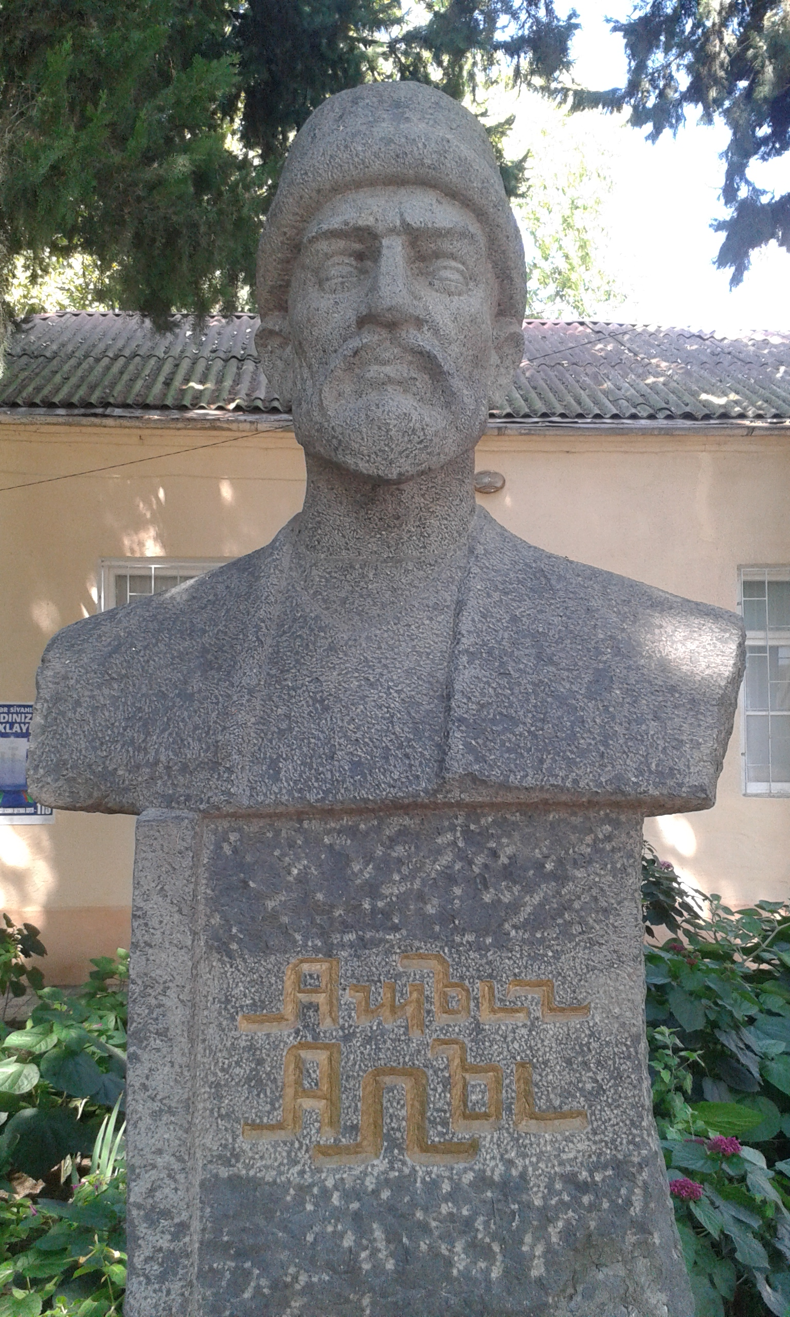 Ashiq Ali, Azerbaijan Agstafa